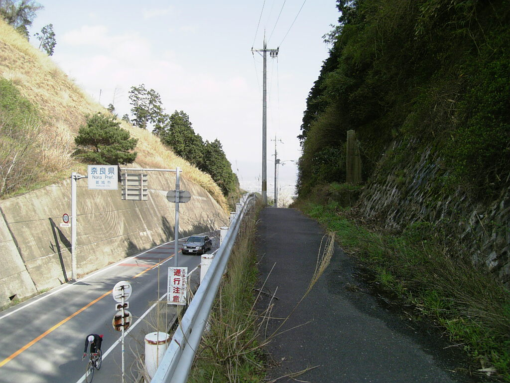 Takenouti-Pass in Nara, Japan